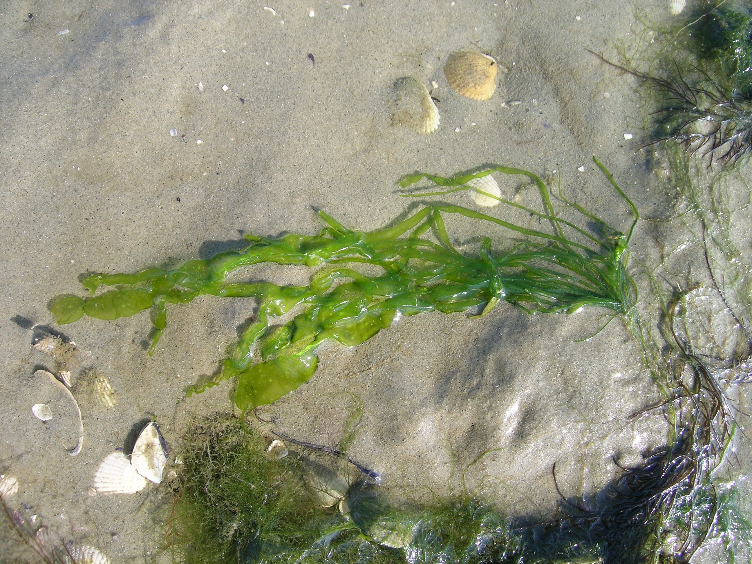 gutweed (Enteromorpha spp.)